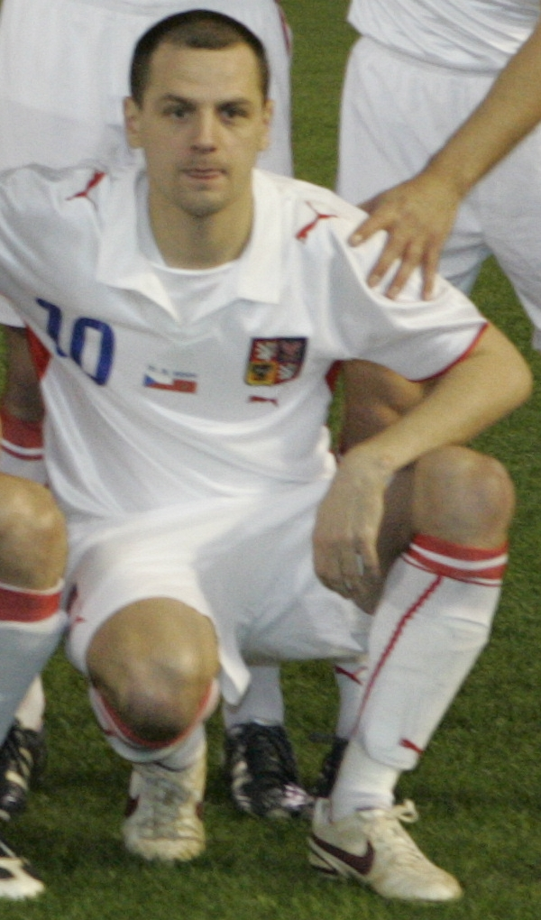 Marek Matějovský (Czech Republic) before the friendly match against Morocco on February 11, 2009